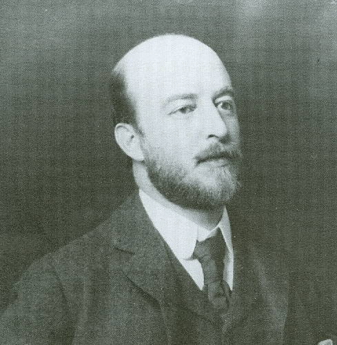 a scan of a photographic reproduction of a photograph in the public domain